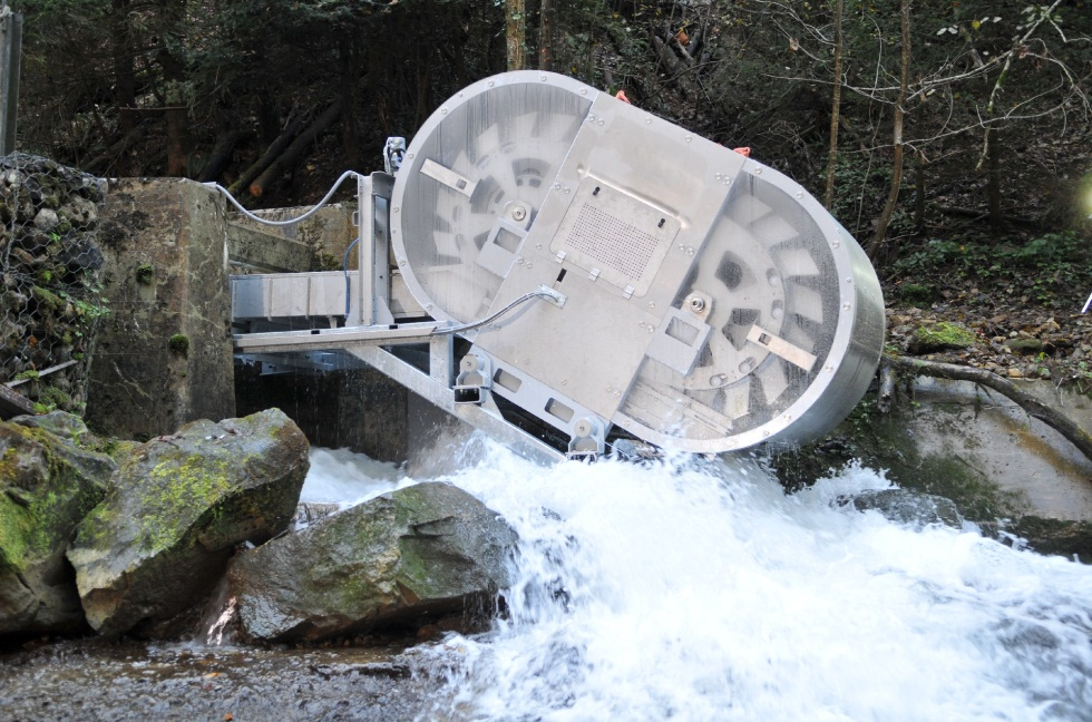 Steffturbine running at Pilgersteg, Rüti, Switzerland